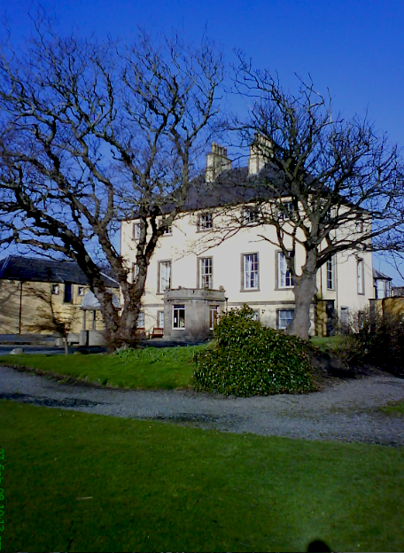 Banff Castle